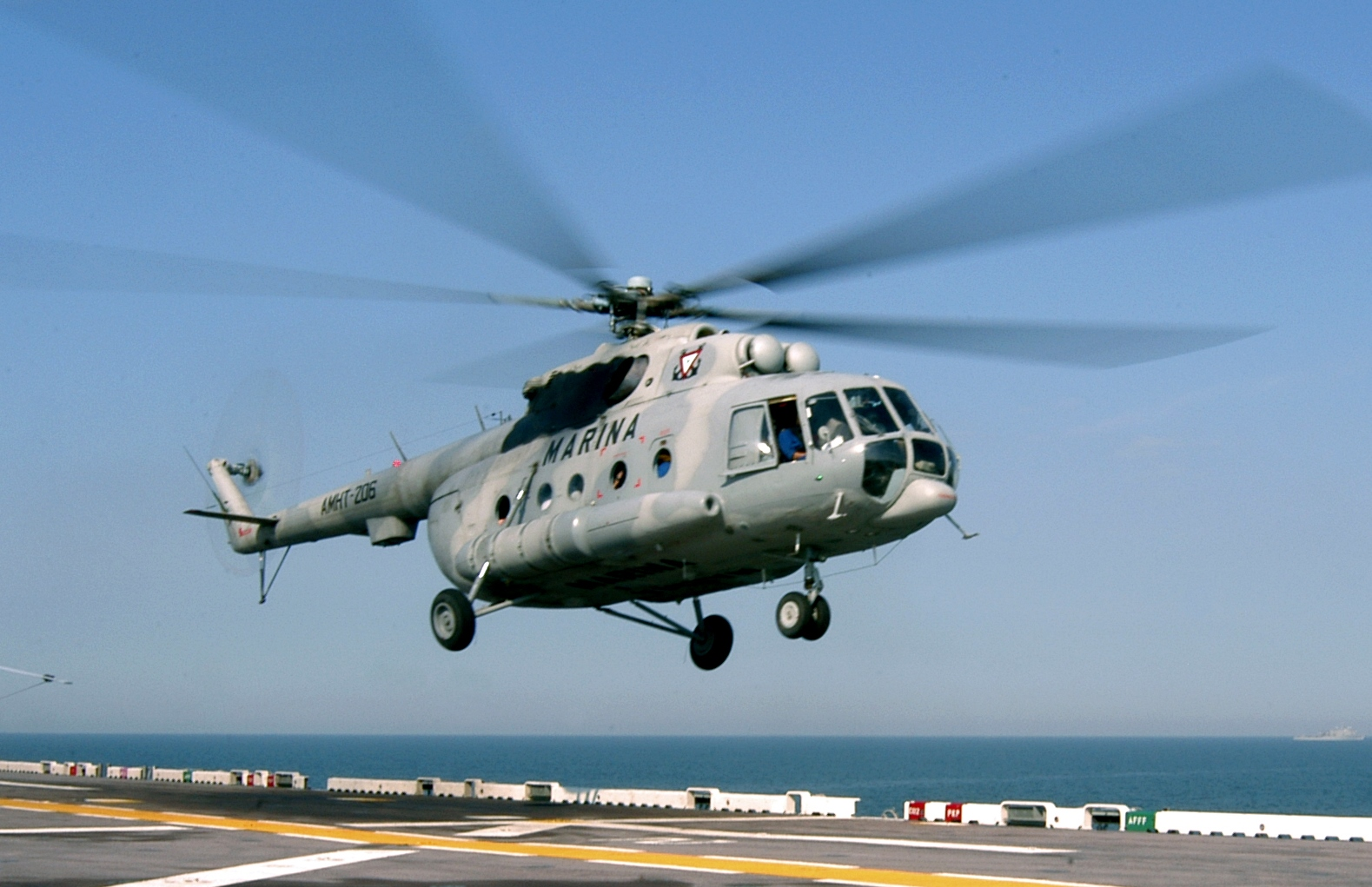 050909-N-8154G-070Gulf of Mexico (Sept. 9, 2005) - A Mexican Navy Mi-8 helicopter takes off from the flight deck of the amphibious assault ship USS Bataan (LHD 5) off the coast of Mississippi. The Mexican and Dutch Navies have joined with the U.S. Navy in the Hurricane Katrina relief efforts. The Navy's involvement in the Hurricane Katrina humanitarian assistance operations is led by the Federal Emergency Management Agency (FEMA), in conjunction with the Department of Defense. U.S. Navy photo by Photographer’s Mate Airman Jeremy L. Grisham (RELEASED)